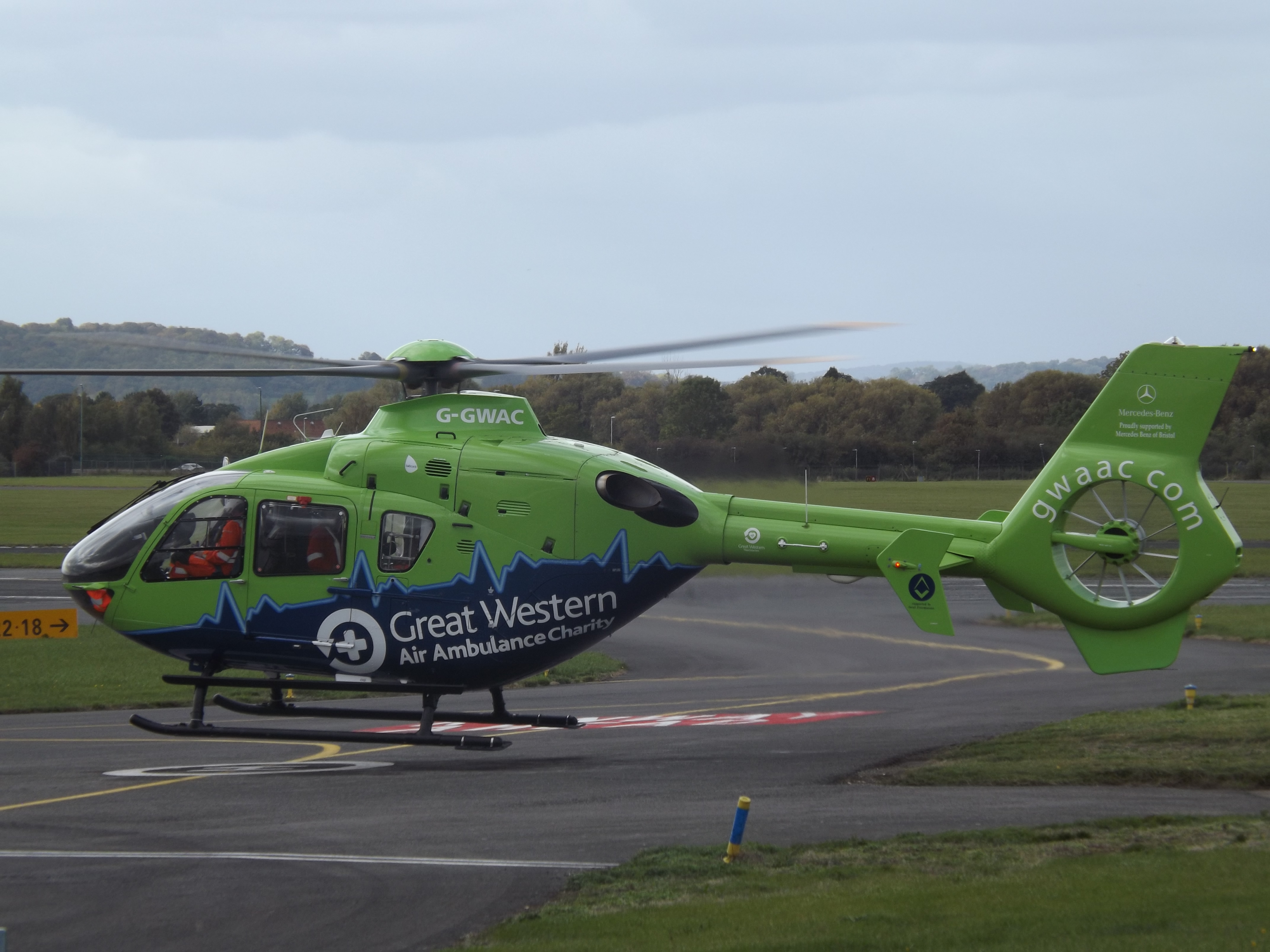 Gt Gloucestershire Airport.